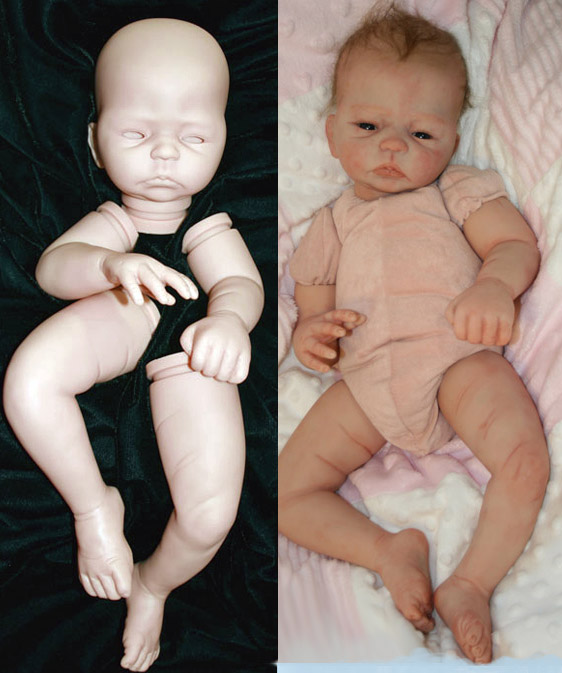 Emmaline reborn vinyl kit by Donna Lee